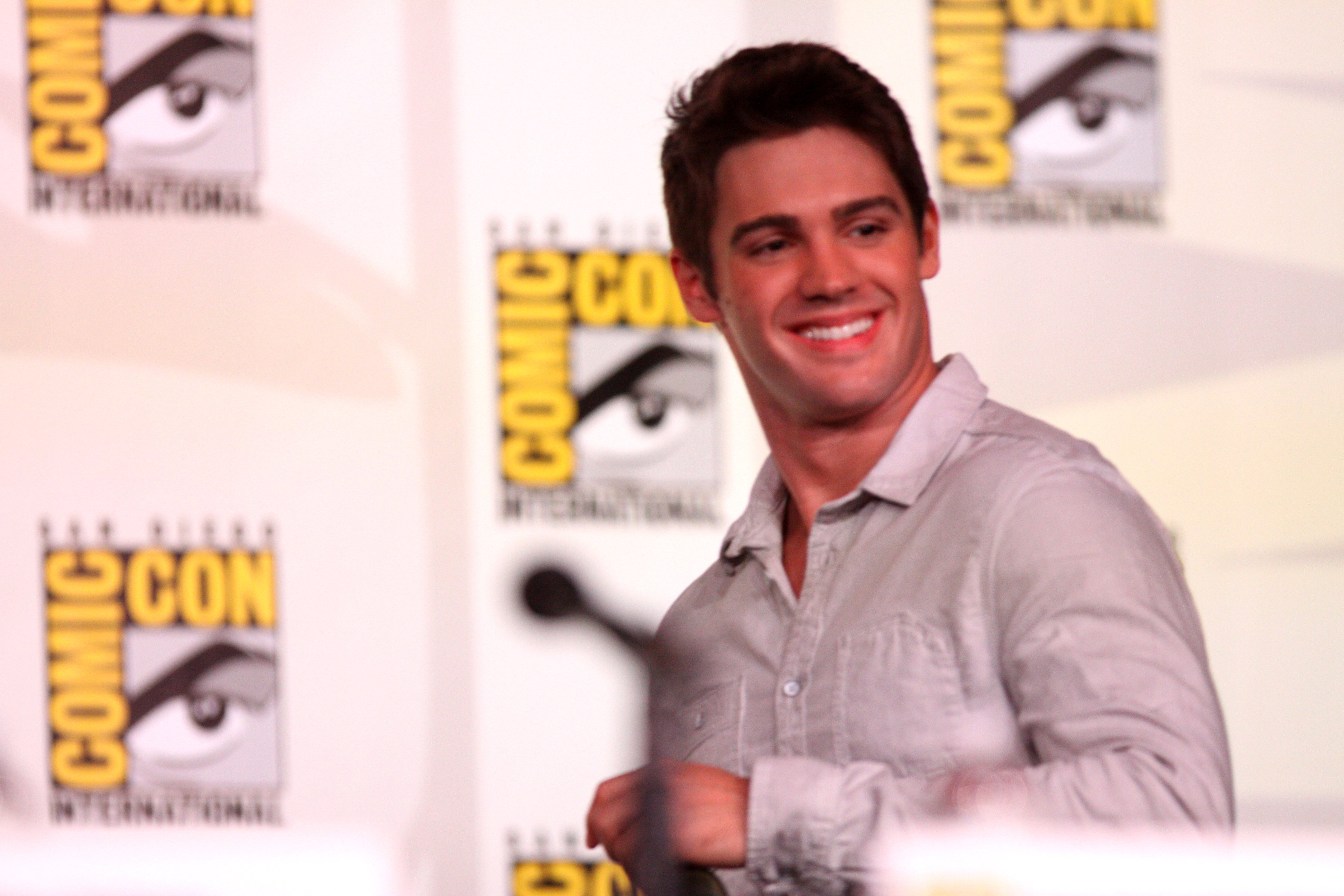 Steven R. McQueen speaking at the 2012 San Diego Comic-Con International in San Diego, California.